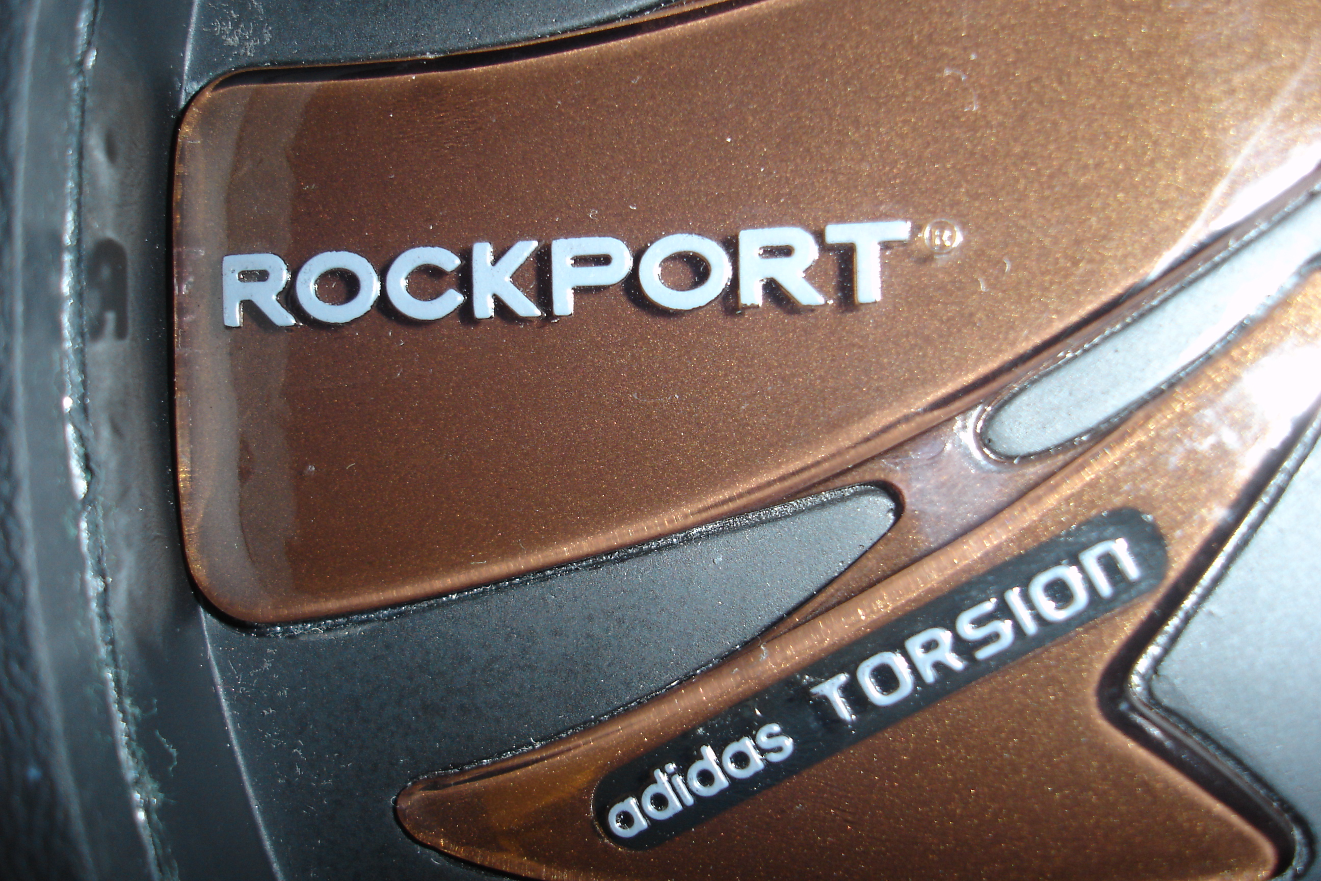 Rockport men shoes outsole. Adidas Torsion usage